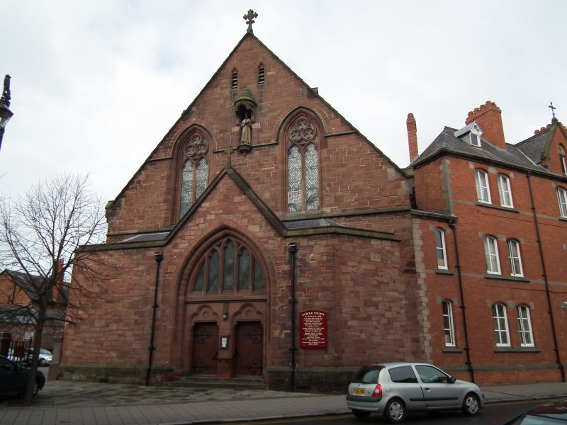 Roman Catholic Church of St Francis, Chester, served by the Capuchins.